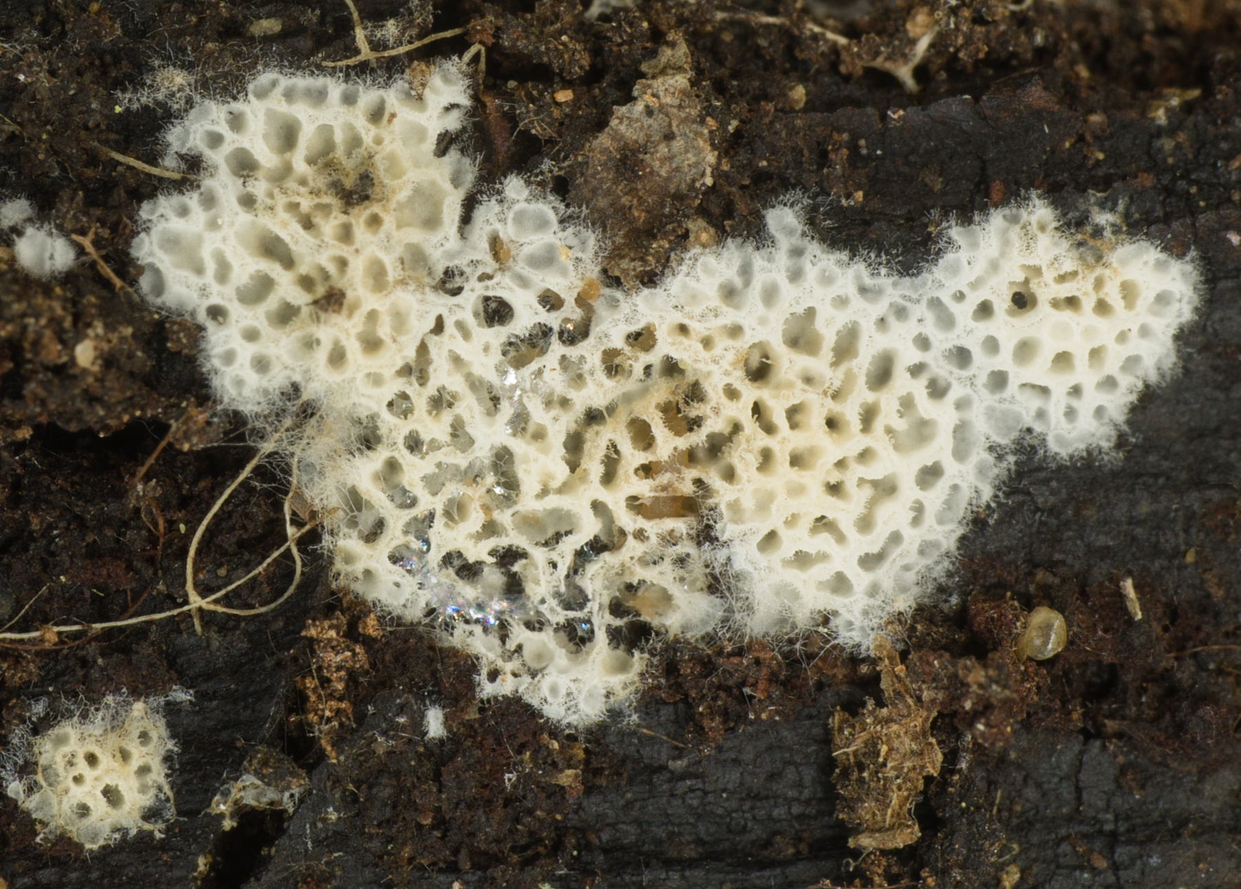 The crust fungus Ceriporia reticulata, photographed in Almaden Quicksilver County Park, San Jose, California, USA.